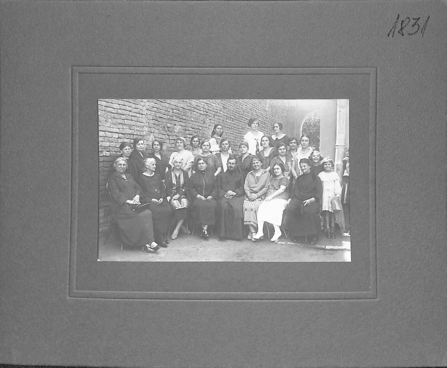 Members of the Charity Cooperatives of the Serbs of Pančevo